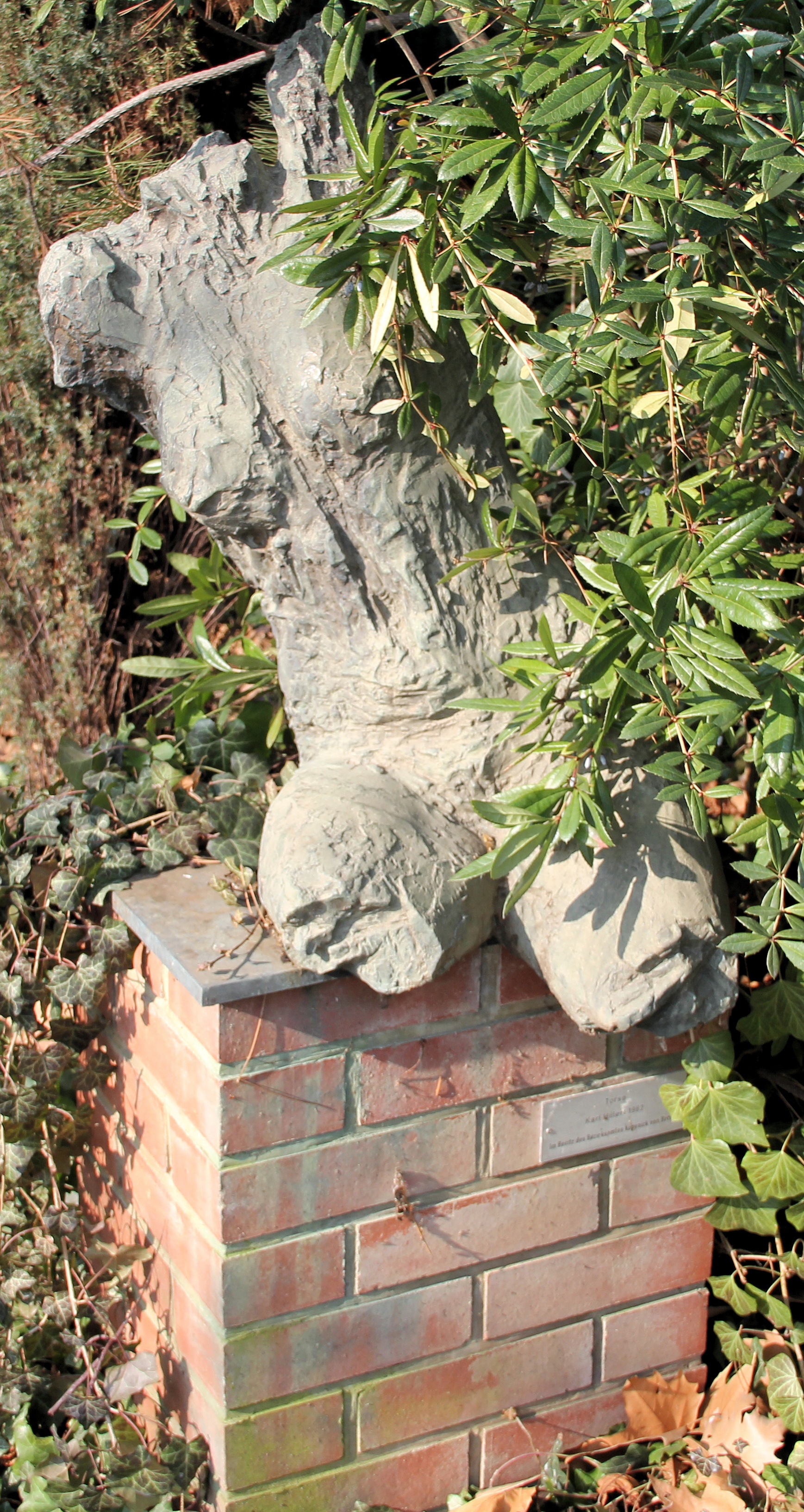 Memorial, "weiblicher Torso" by Karl Hillert, 1982, Schloßinsel, Berlin-Köpenick, Germany